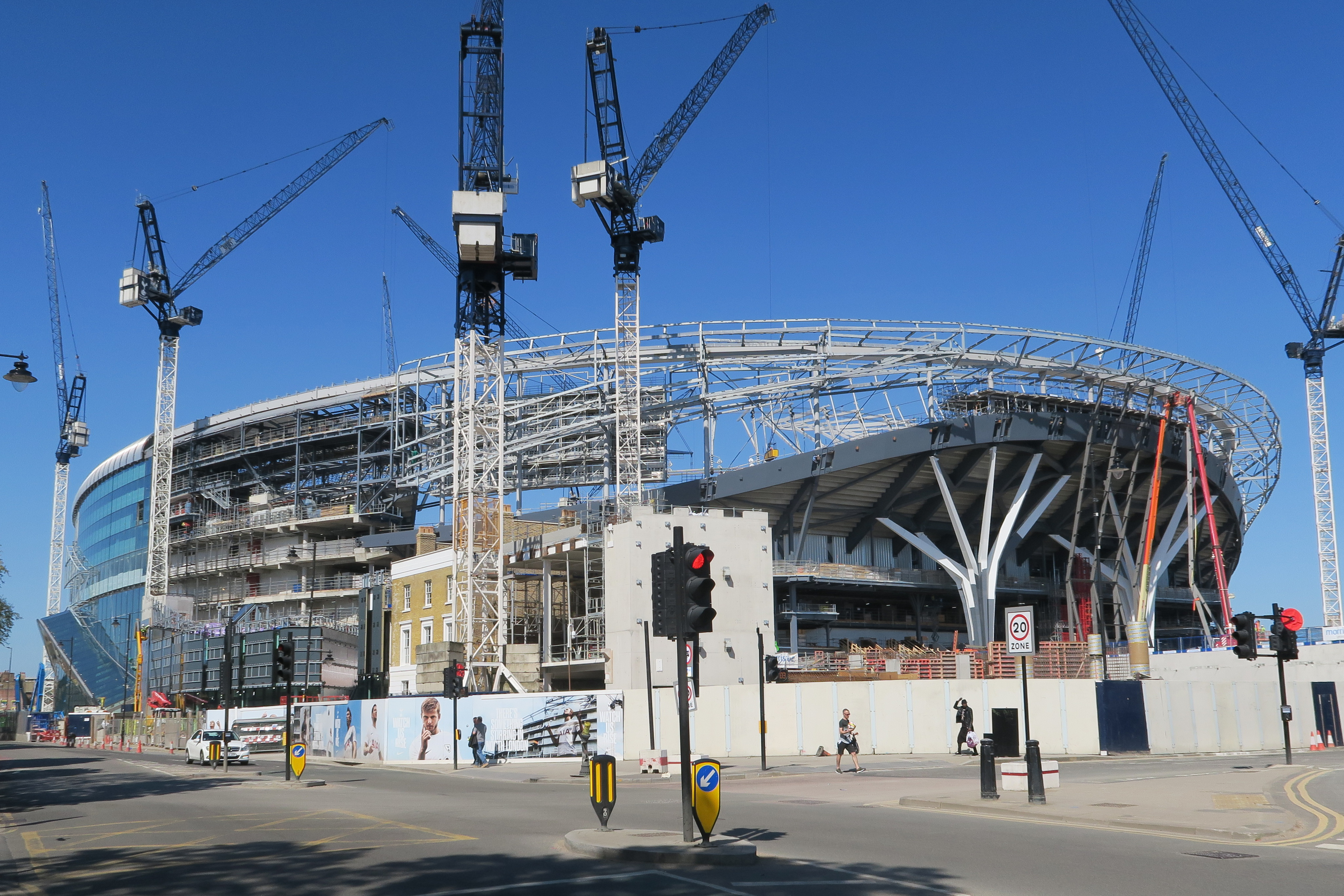 Construction of Tottenham Hotspur Stadium, view from High Road